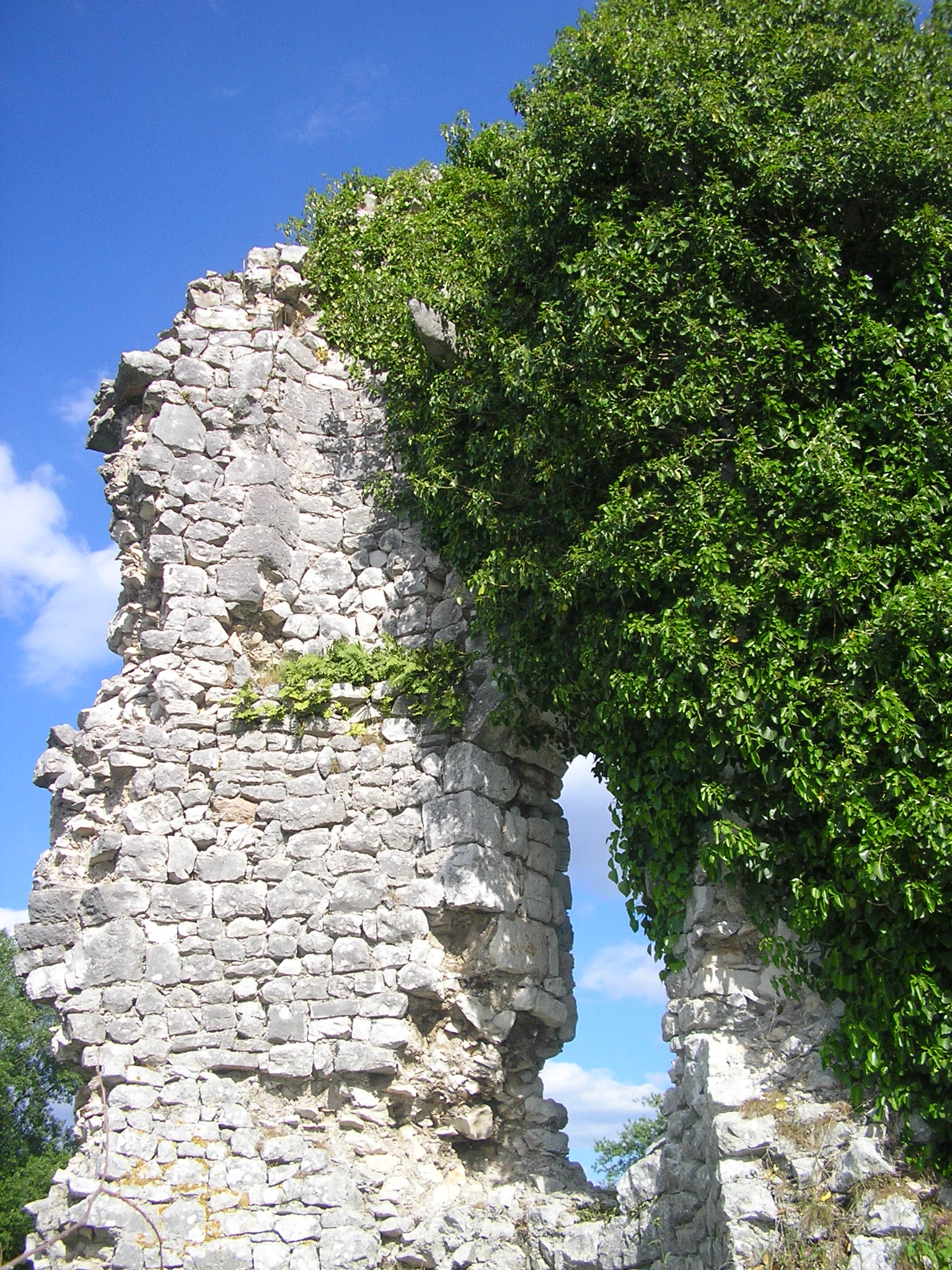 Rt tower near Dračevo (BiH)